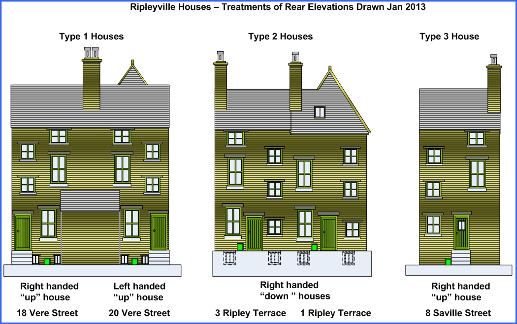 Revised version of Ripley Ville houses rear elevations .jpg